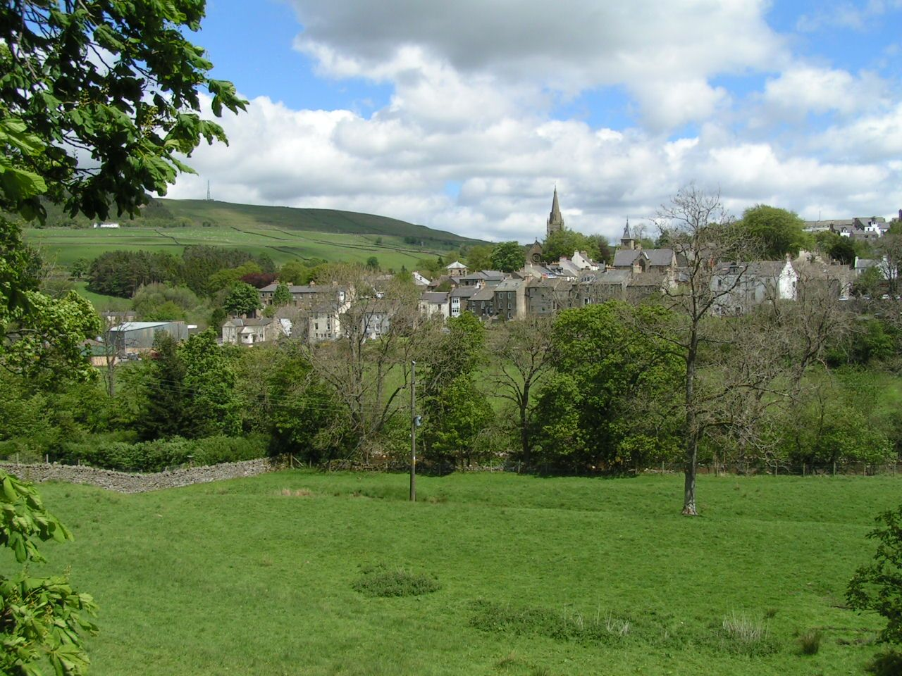 Alston, Cumbria, from the northwest (photo taken 29th May 2005).